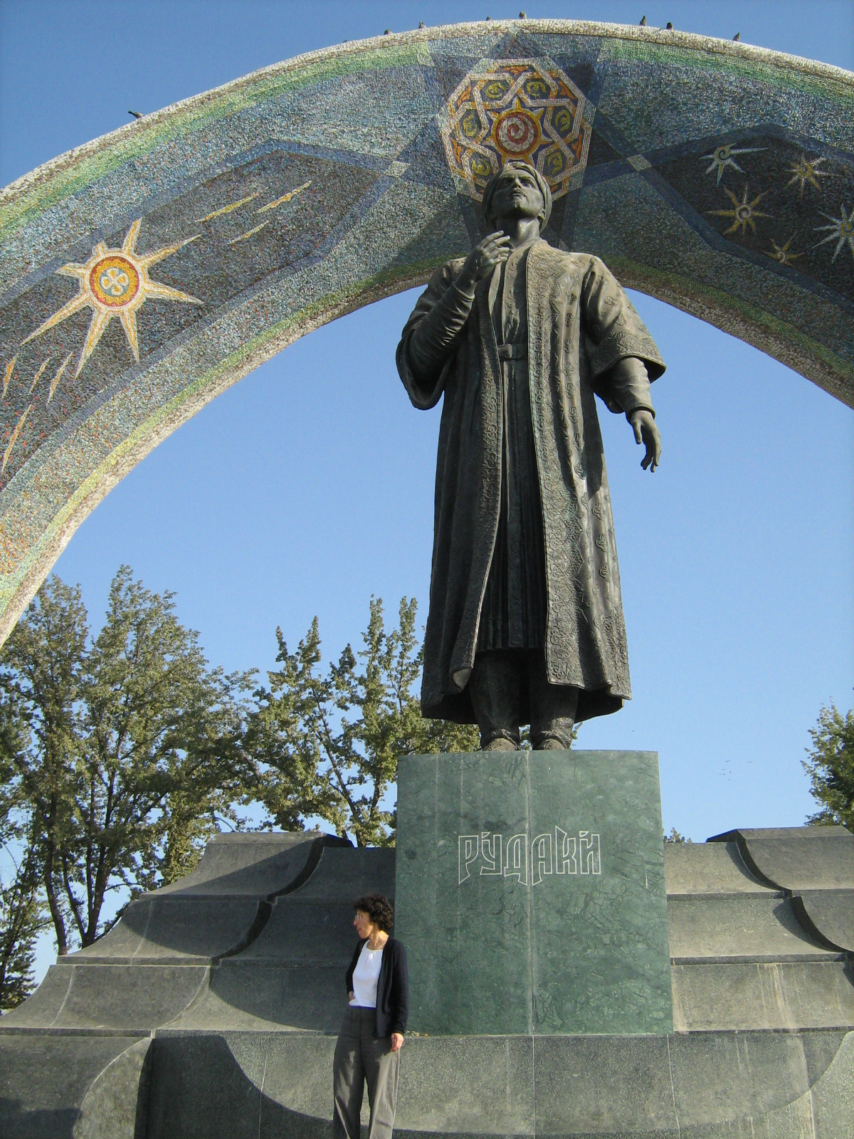 Statue of Tajik poet А. Rudaky in Dushanbe, TajikistanТоҷикӣ: Муҷассамаи А. Рӯдакӣ дар Душанбе,Тоҷикистон